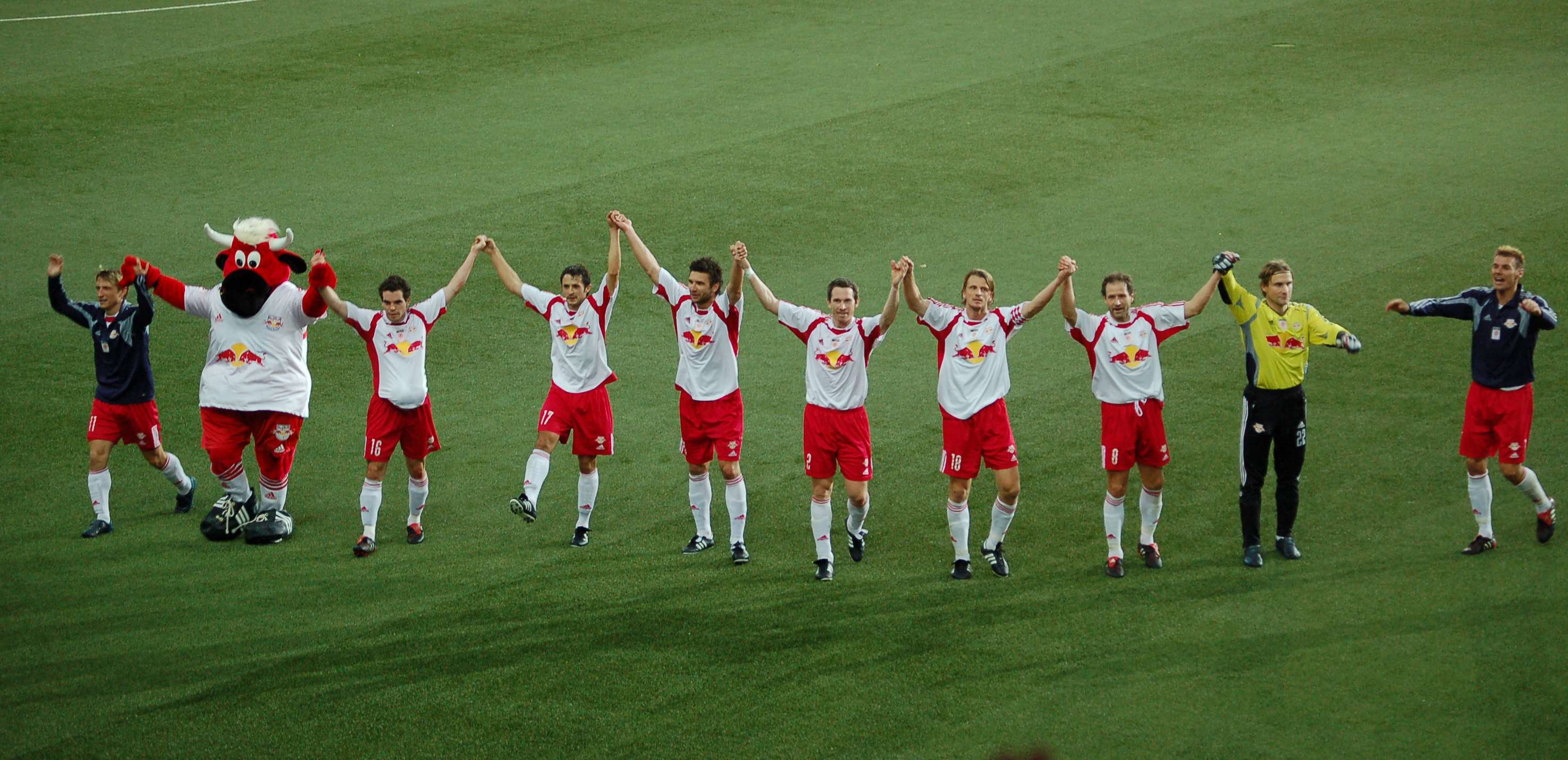 A part of the Red Bull Salzburg team (after Red Bull Salzburg vs. SK Sturm Graz in EM-Stadion Wals-Siezenheim)